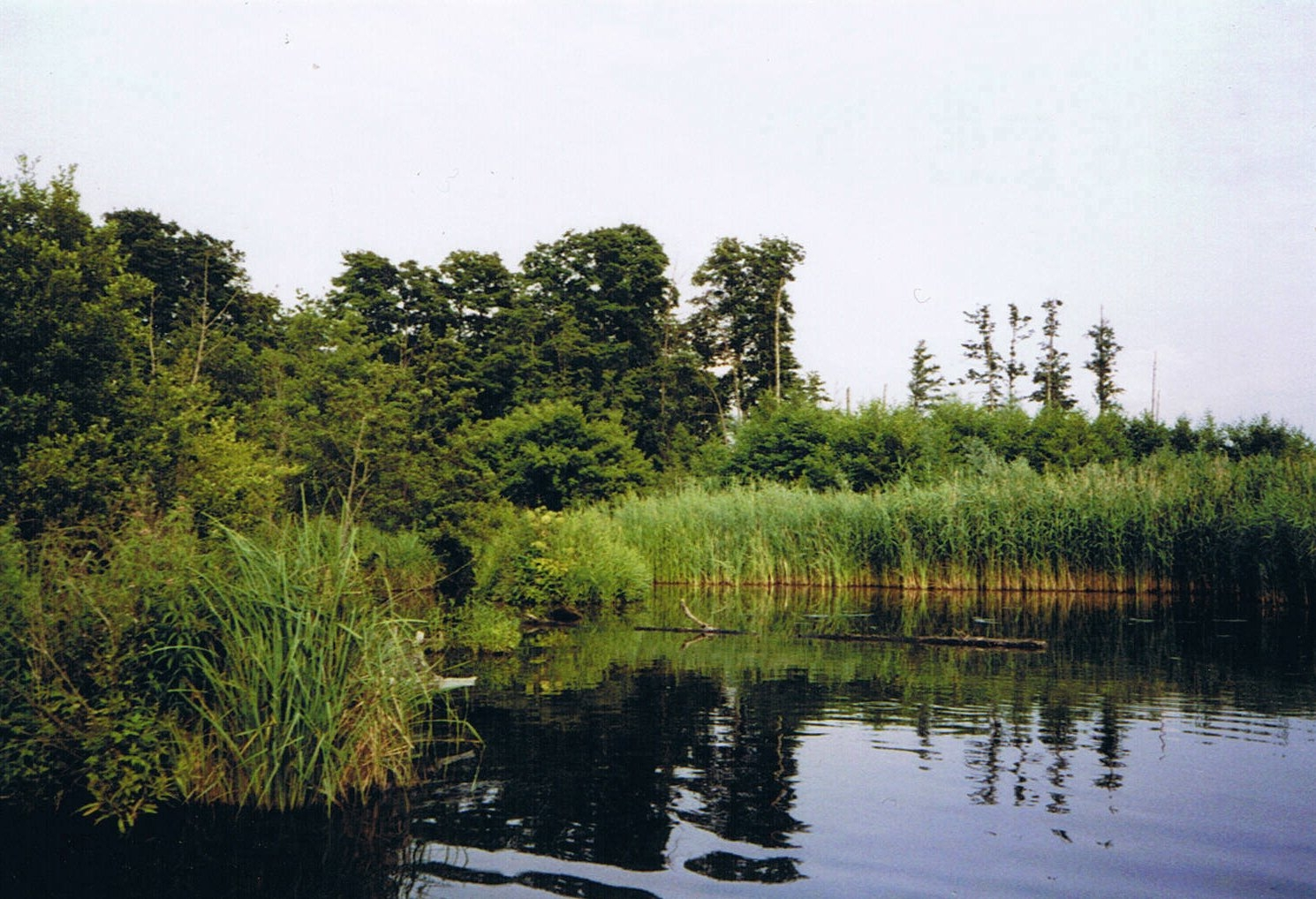 Plants in a bay of the river Havel in the proximity of the village Roskow in Brandenburg (Germany).